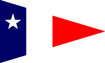 The official pennant of the United States Life-Saving Service.